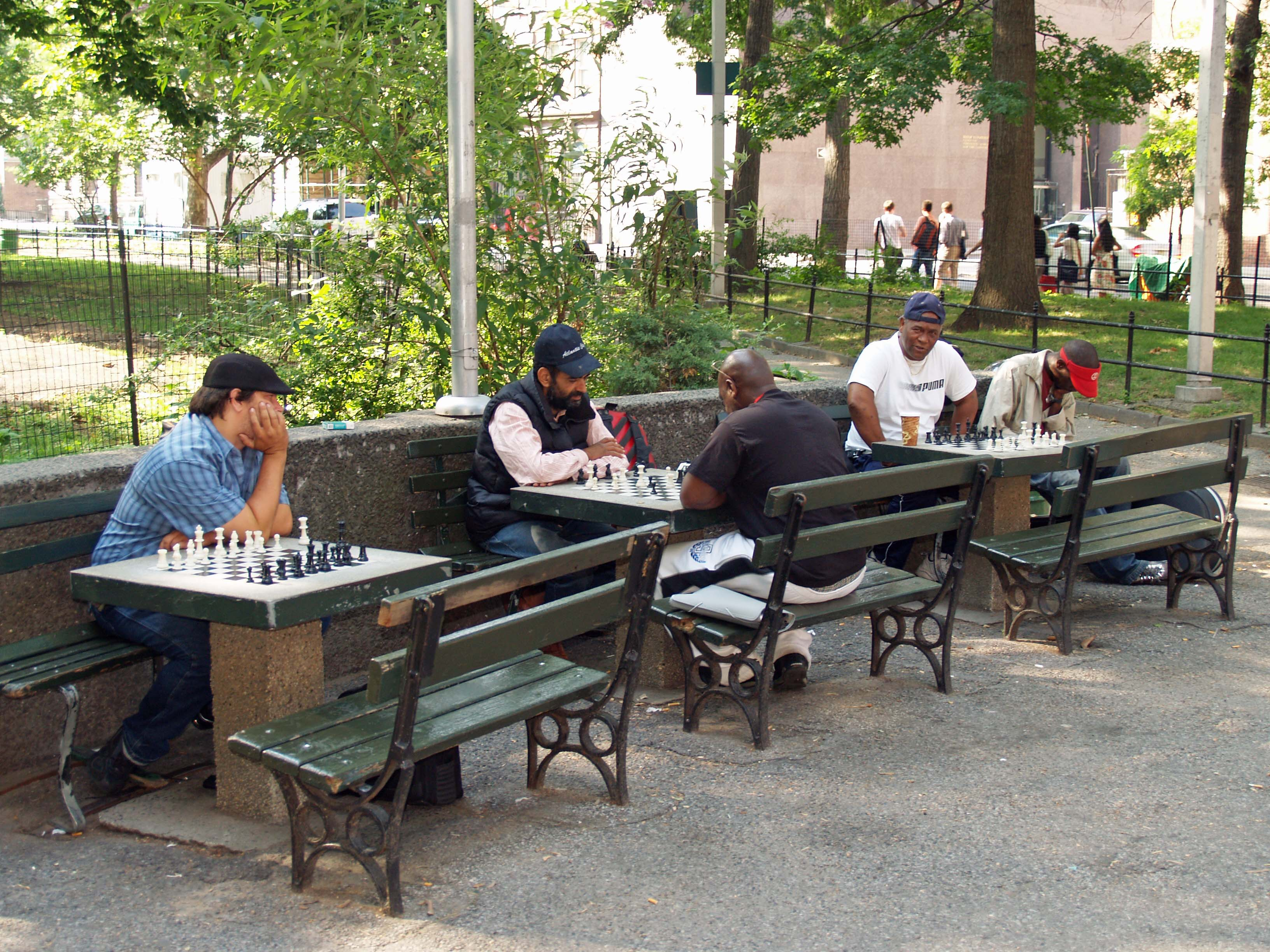 Chess players in Washington Square Park by David Shankbone